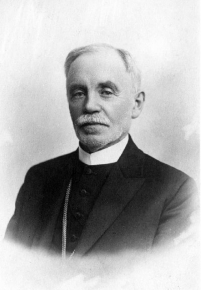 Juraj Janoška (1856-1930), Slovak Lutheran Bishop